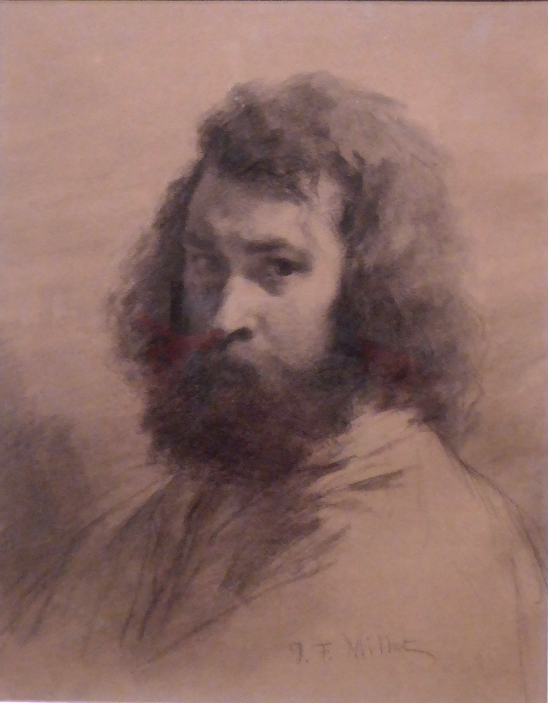 Jean-François Millet (1814-1875), Self-Portait 1845/46. Charcoal and black chalk